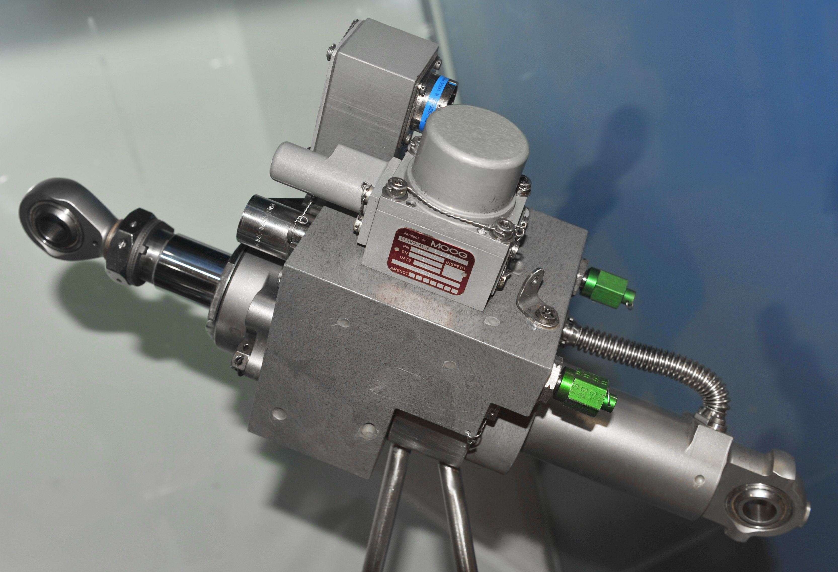 Rudder Actuator, supplier Liebherr Aerospace Lindenberg (presented on an exhibition at Airport Bremen) Electrical control input hydraulic supply: 206 bar (3000 psi) maximum force: 17.5 kN (3934 lbf) maximum deflection rate: 40 deg/s weight: 6.3 kg (13.9 lb)